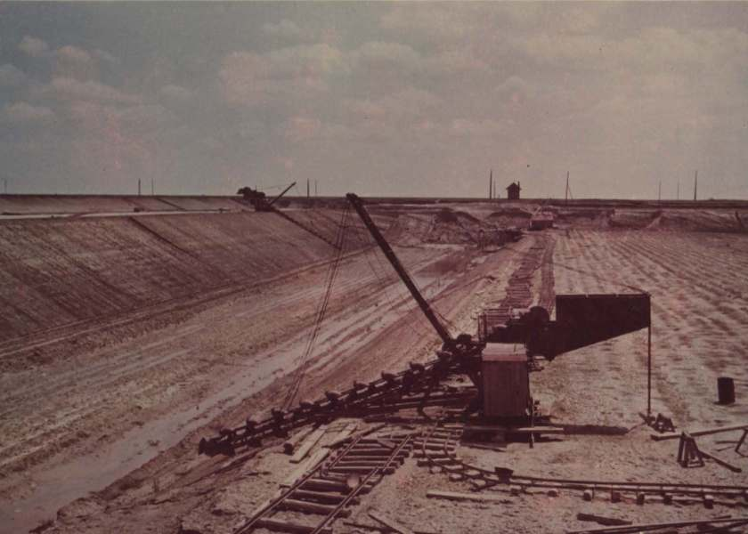 Factory Toza Marković Kikinda Srpski (latinica): Majdan sirovina sa bagerima u fabrici Toza Marković Kikinda